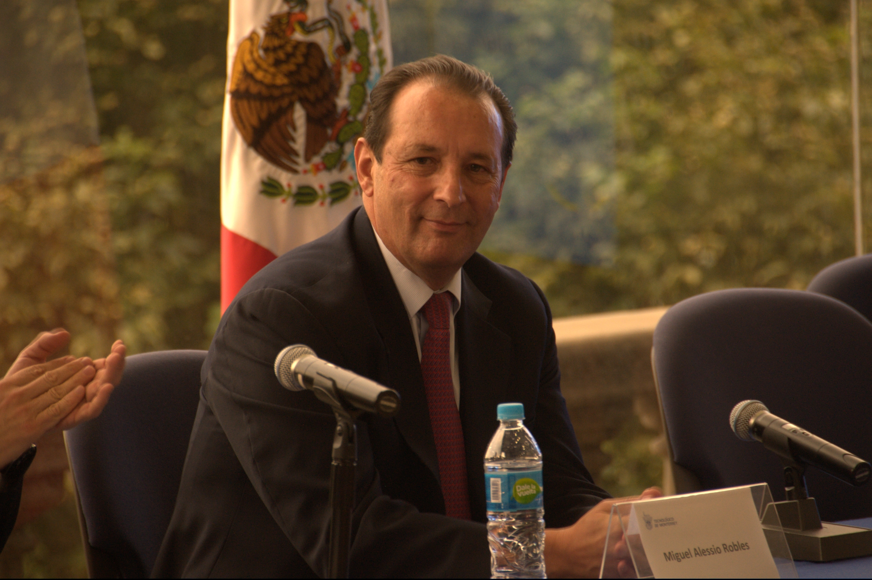 Presenting Dr. Miguel Alessio Robles book “Temas de derecho reales” [2]